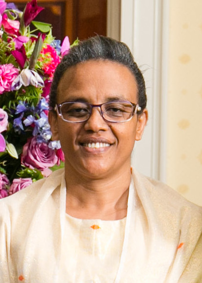 President Barack Obama and First Lady Michelle Obama greet His Excellency Hailemariam Desalegn, Prime Minister of the Federal Democratic Republic of Ethiopia, and Ms. Roman Tesfaye, in the Blue Room during a U.S.-Africa Leaders Summit dinner at the White House, Aug. 5, 2014. [Official White House Photo by Amanda Lucidon] This official White House photograph is in the public domain from a copyright perspective, so while restrictions such as personality or privacy rights may apply, in general, manipulations are allowed.